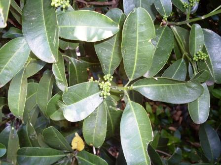 Acronychia_littoralis_-_leaves_&_buds